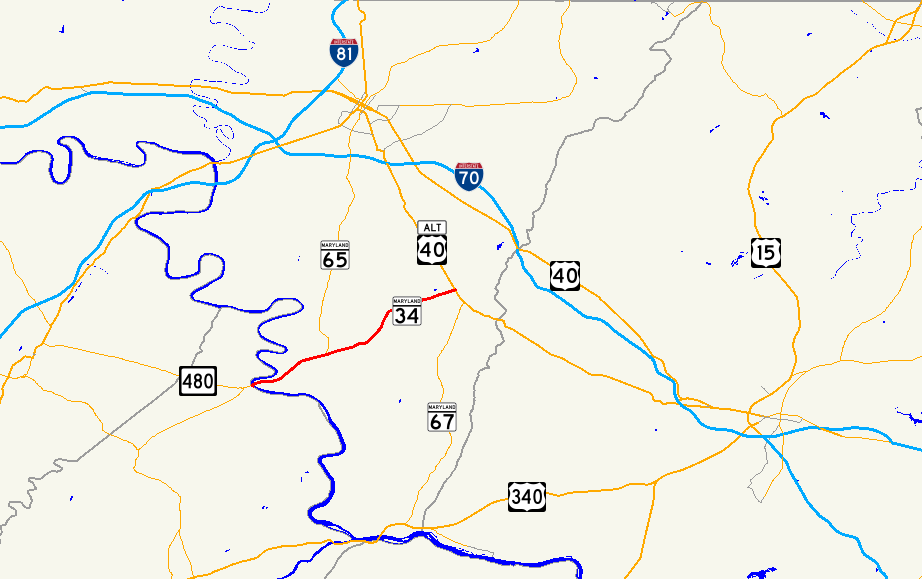 Map of Maryland Route 34